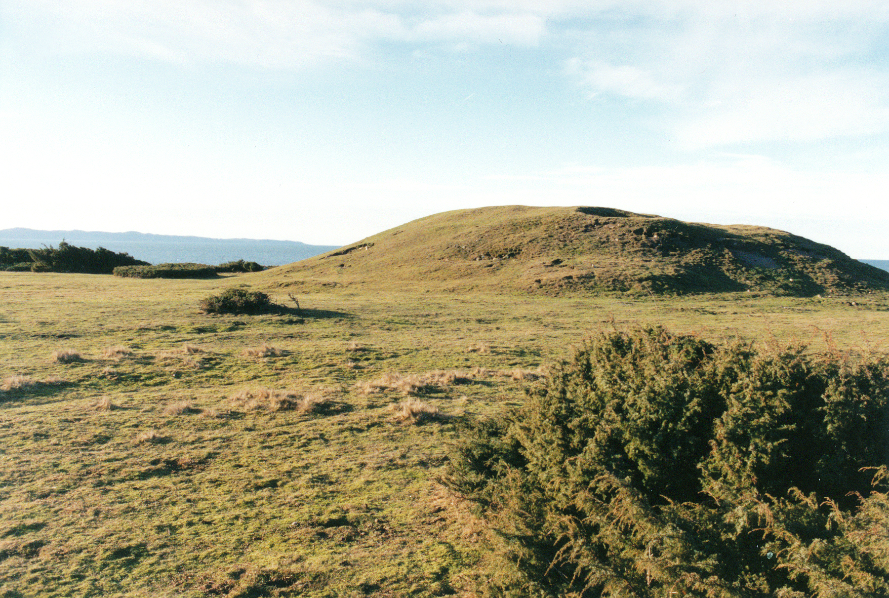 One of the larges grave mounds from the Bronze Age in Scania, Sweden.